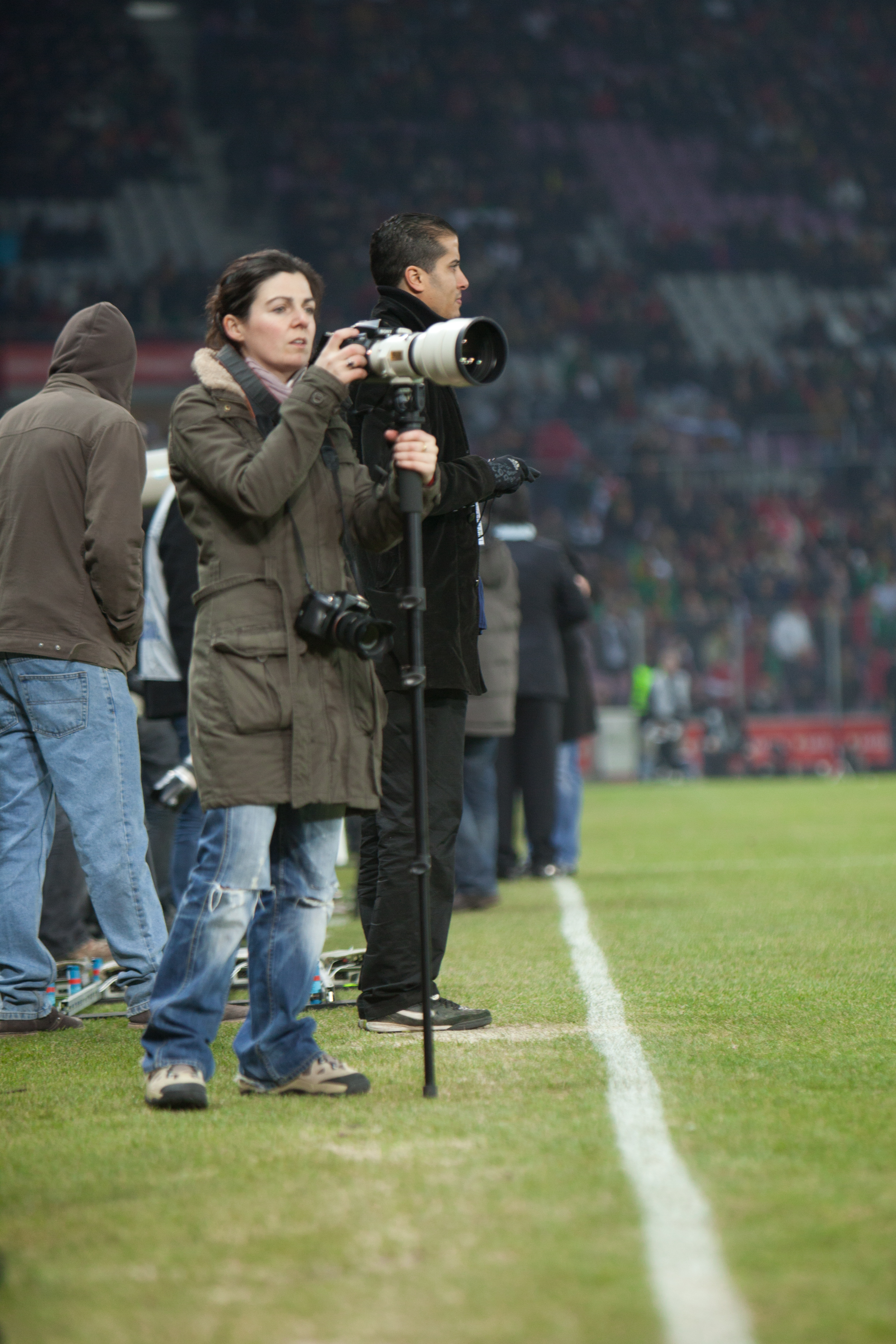 Wikipedian photographer at work during a football match, Argentina-Portugal (Geneva - February 2011).